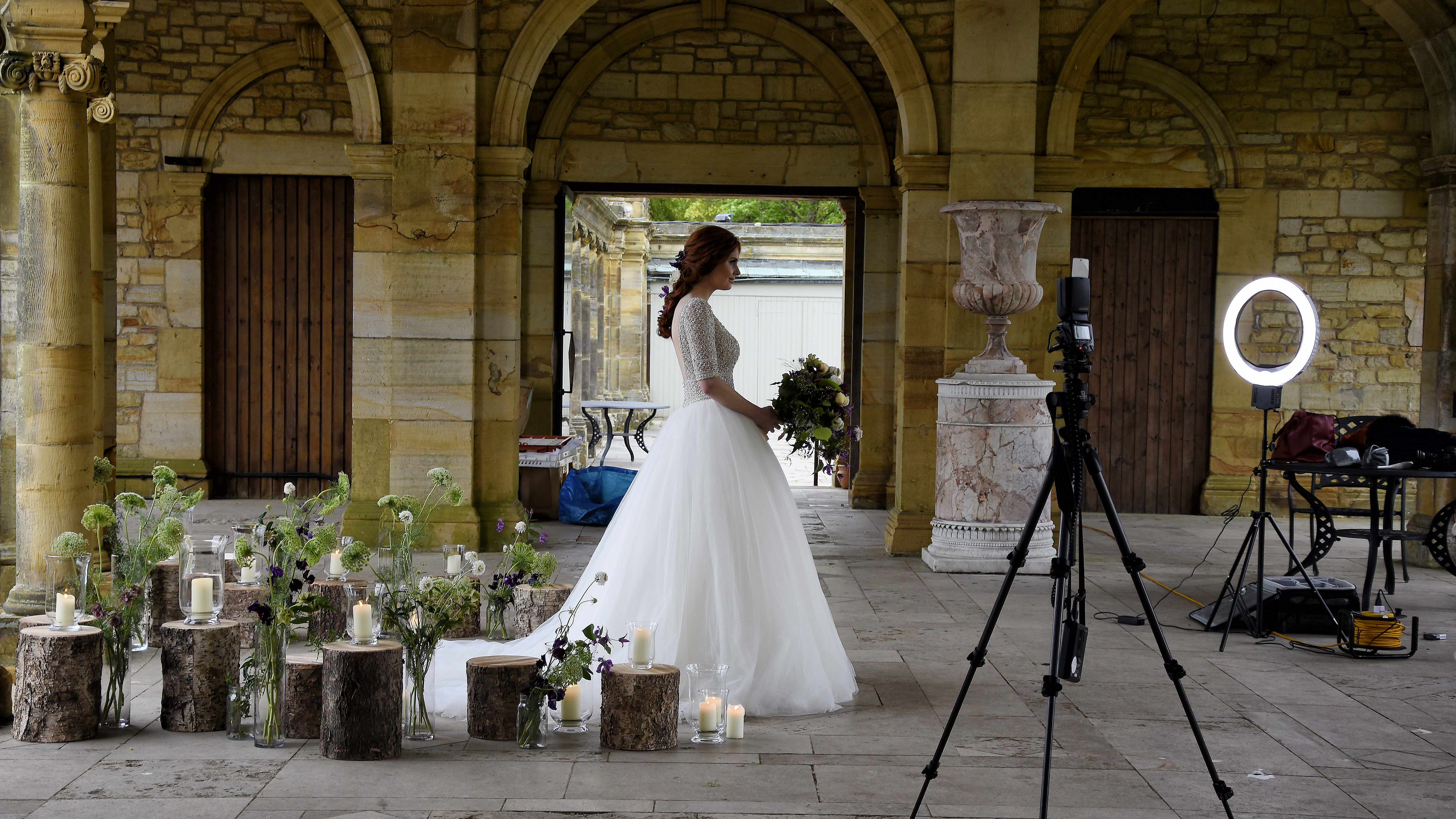 Photo shoot at Hever Castle's loggia